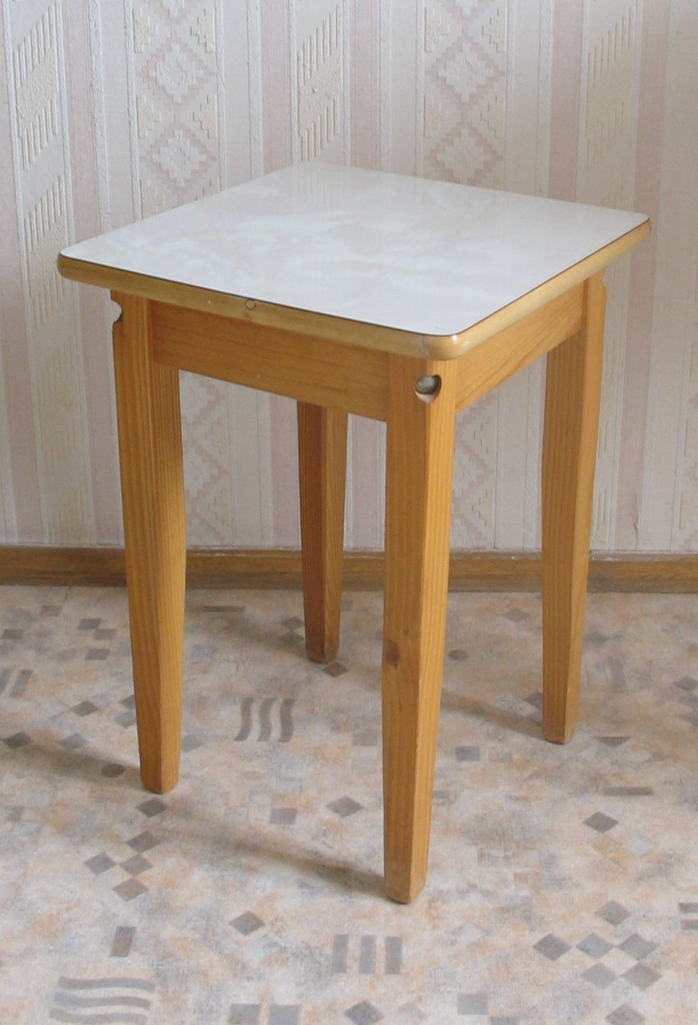 Tabouret, stool